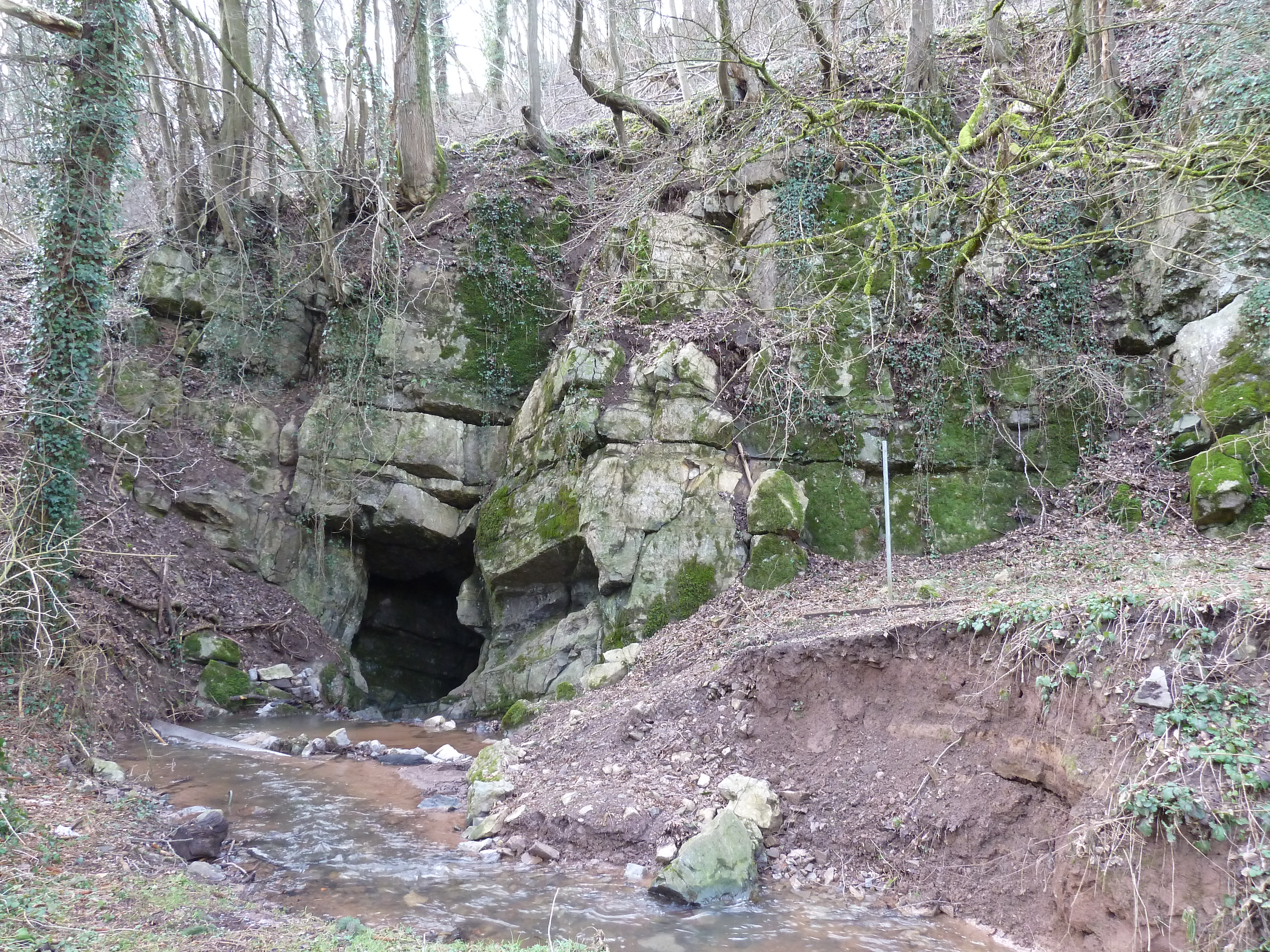 Chantoir near Secheval, province Liège, Belgium